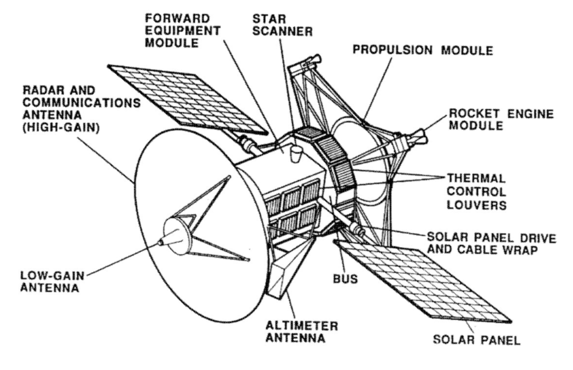 Diagram of the Magellan Venus Orbiter